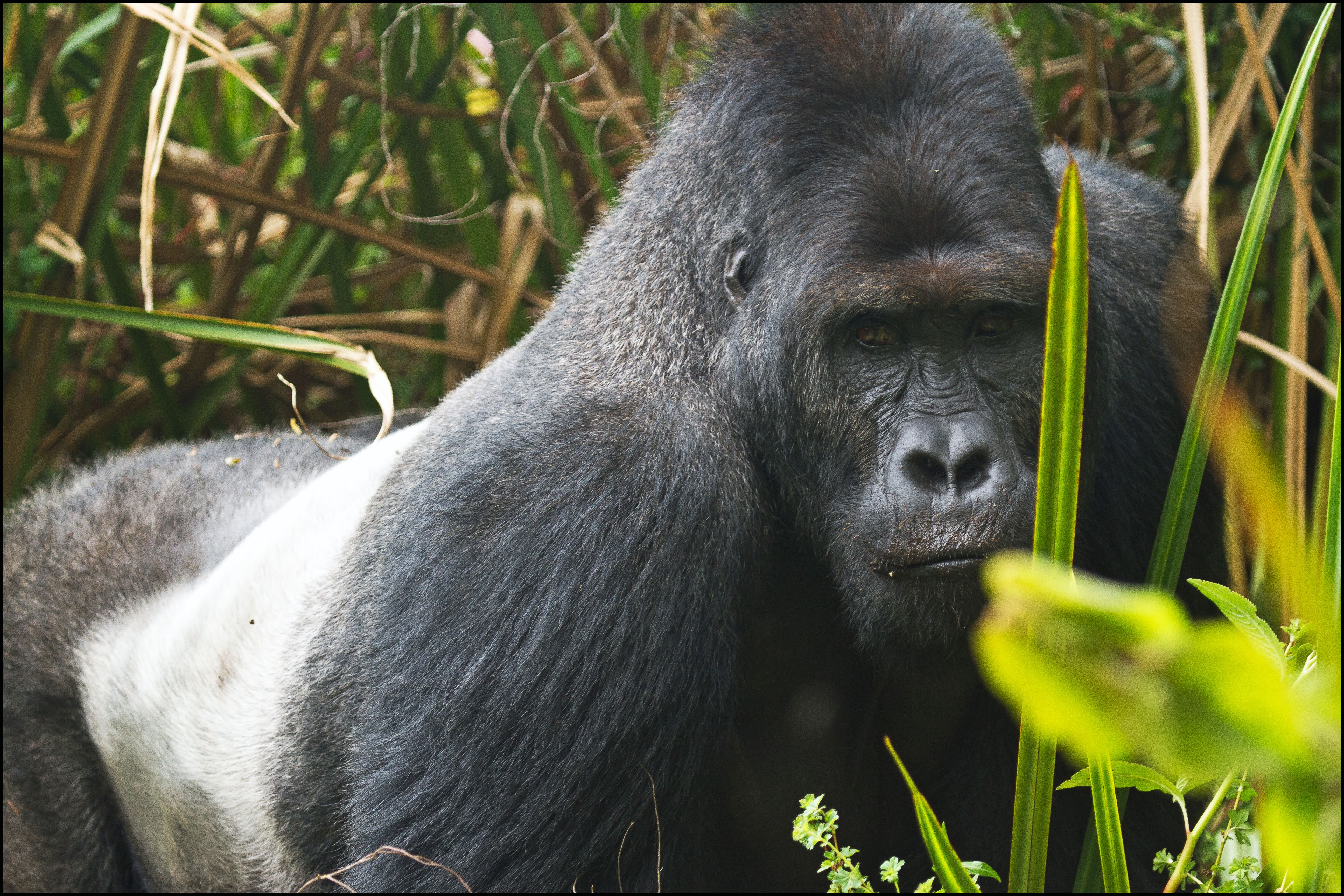 Photo of the powerful Silverback Cimanuka of Kahuzi-Biega National Park, Democratic Republic of Congo. Shortly after this, Cimanuka led his group deeper into the swamp where we could not follow.